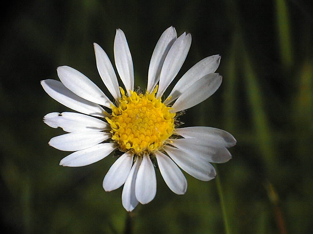 A native alpine plant growing in the Eastern Sierra Nevada.